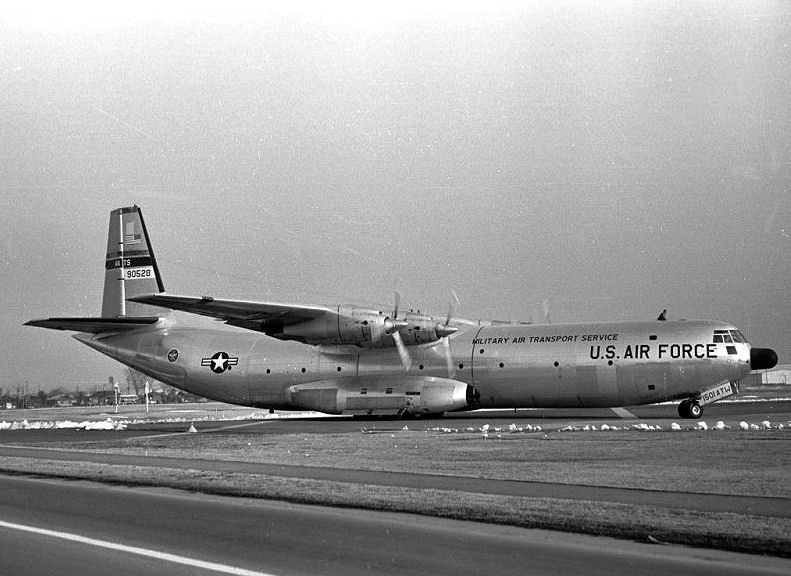 Military Air Transport Service Douglas C-133B-DL Cargomaster 59-0528 about 1960